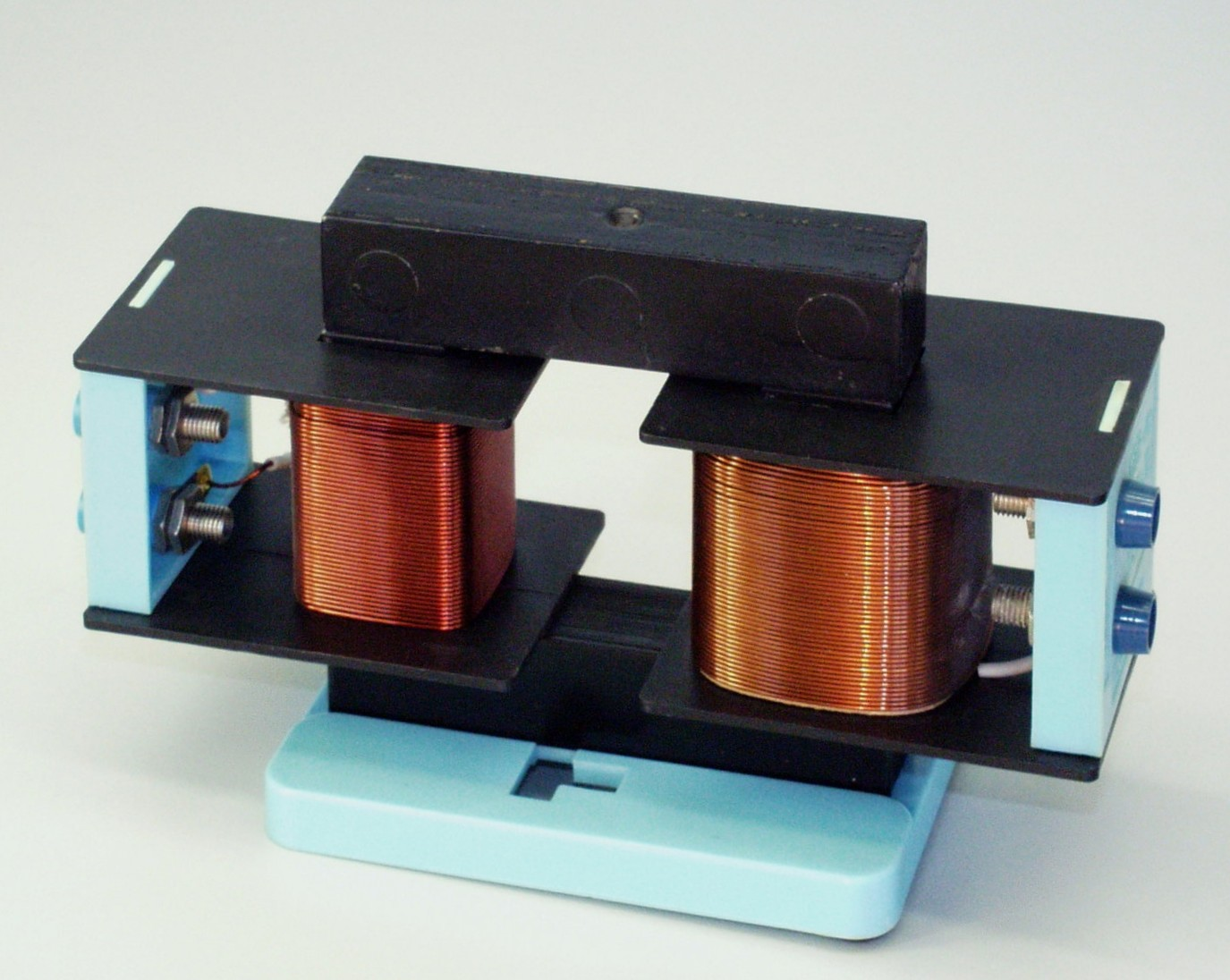 Demountable transformer